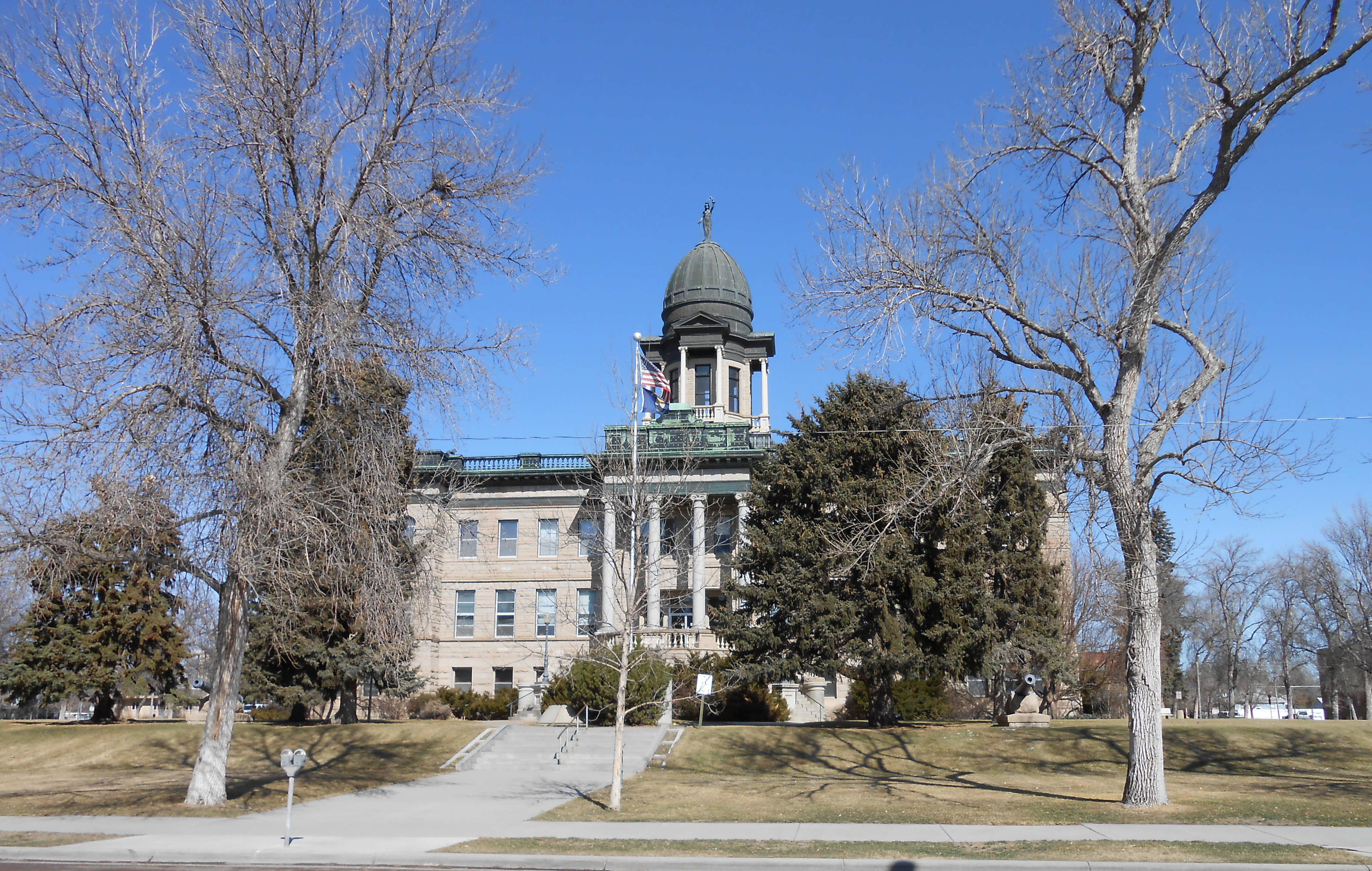 Cascade County Courthouse, Great Falls, Montana. Part of NRHP Northside Residential District